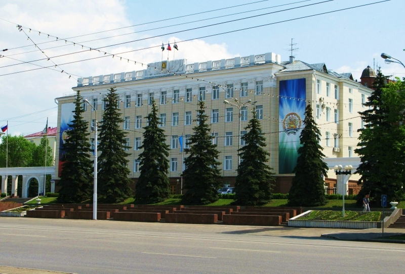 Bashkortostan